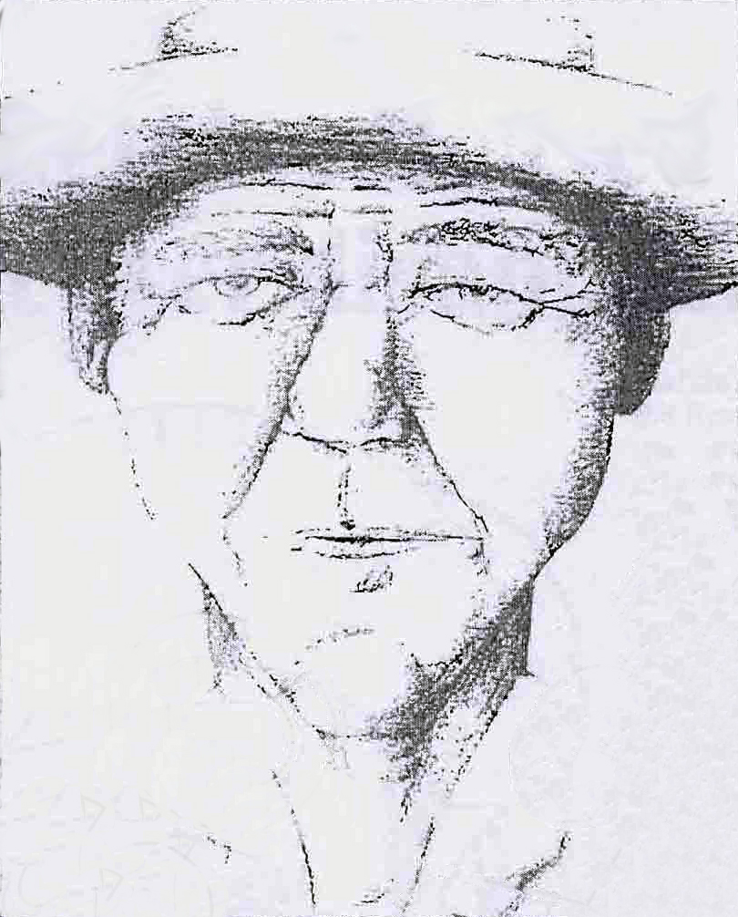 Person of interest as described by the witness Kaj Ludvigsen in the disappearance of Tony Jones